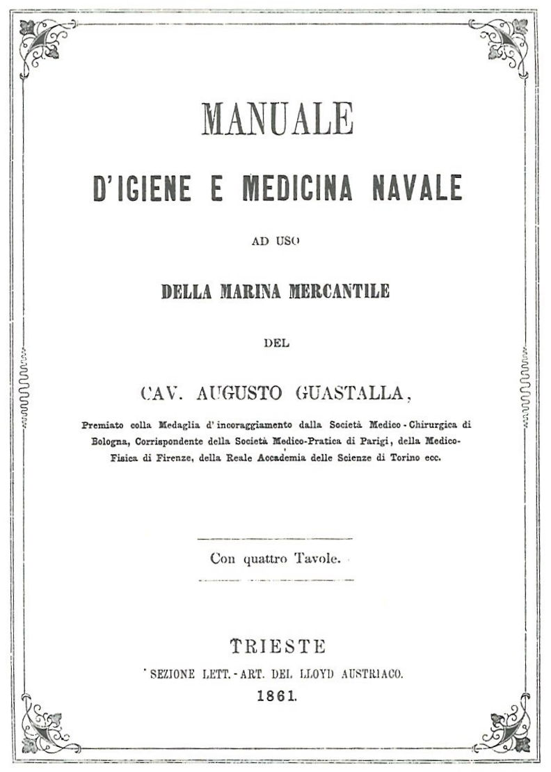 Title page of the book Manuale d'Igenie e medicina navale 1861 by A. Guastalla